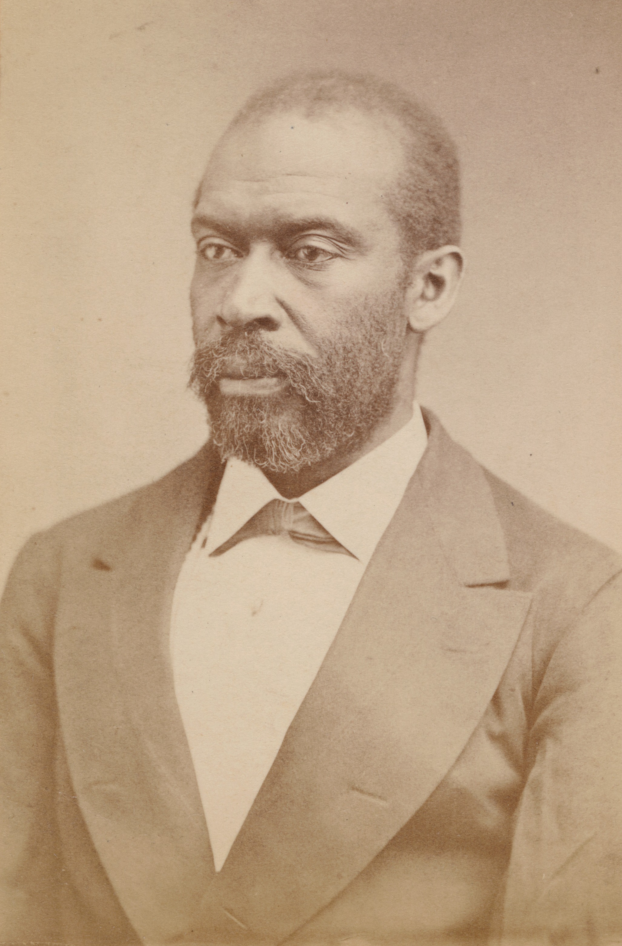 Portrait of Thomas Morris Chester, taken in Harrisburg, Pennsylvania circa 1870